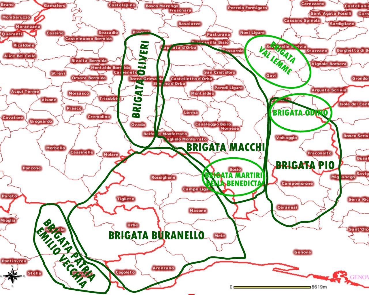 Distribution of Divisione Garibaldi "Mingo" during the month of April, in 1945 in Liguria.